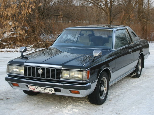 Toyota Crown GS110 Coupe 1982